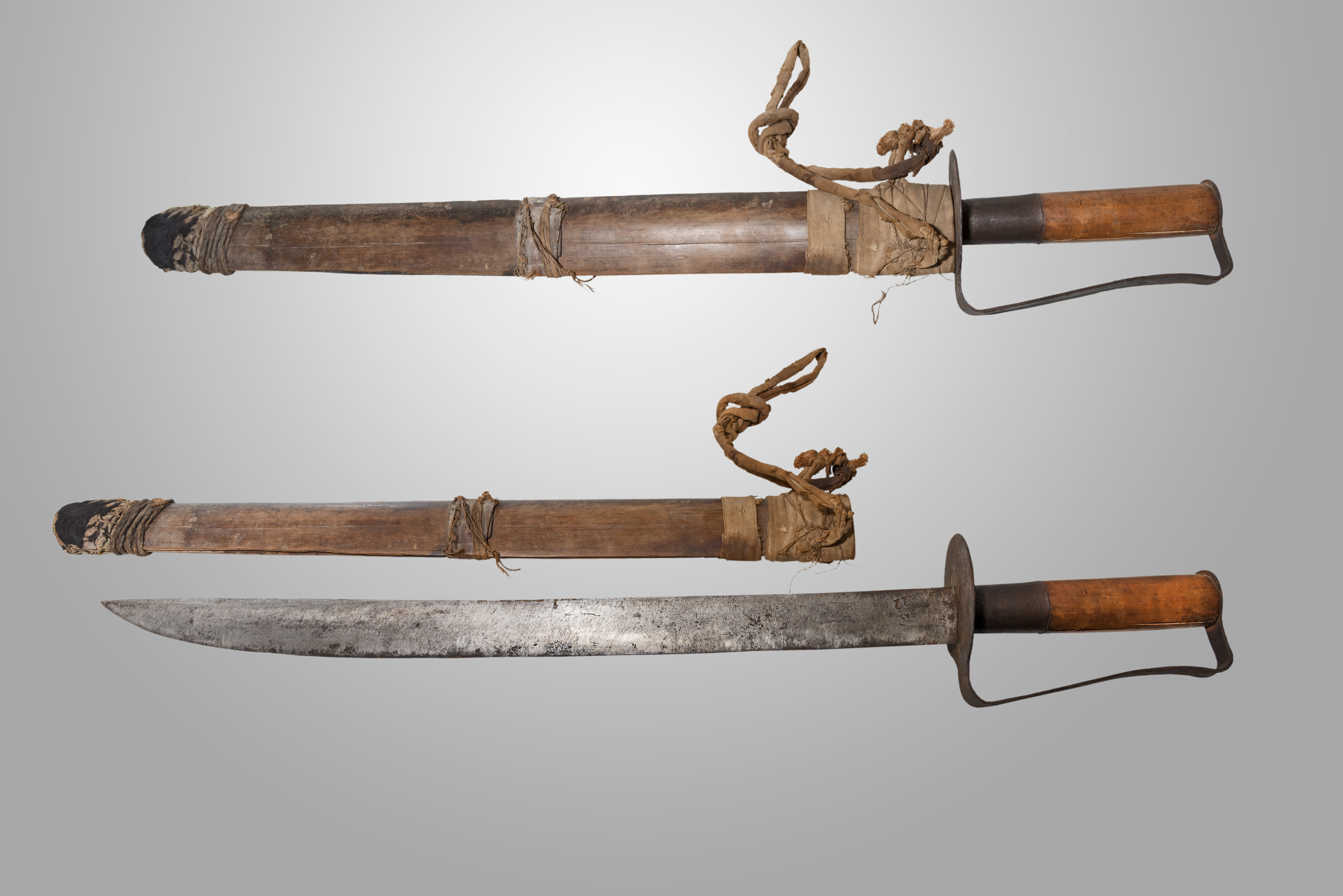 Machete - two views of the same object Population : Madagascar Collector and collection: Gustave Julien Date of collection: the nineteenth century (4th Quarter) Materials: Iron, wood, bamboo and natural fibers Size : 68.5 x 5 cm